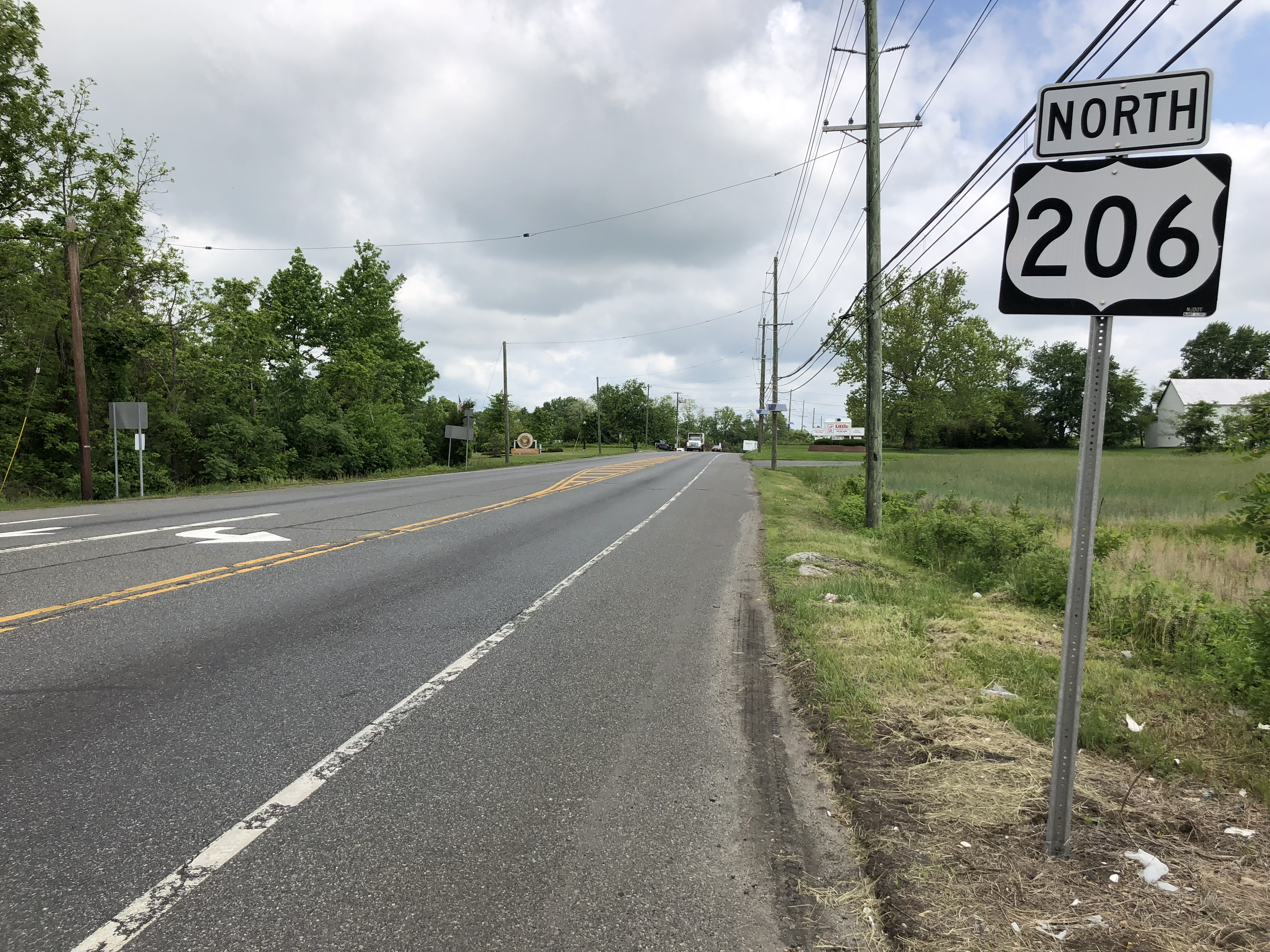 View north along U.S. Route 206 at Burlington County Route 630 (Woodlane Road/Pemberton Road) along the border of Eastampton Township and Pemberton Township in Burlington County, New Jersey